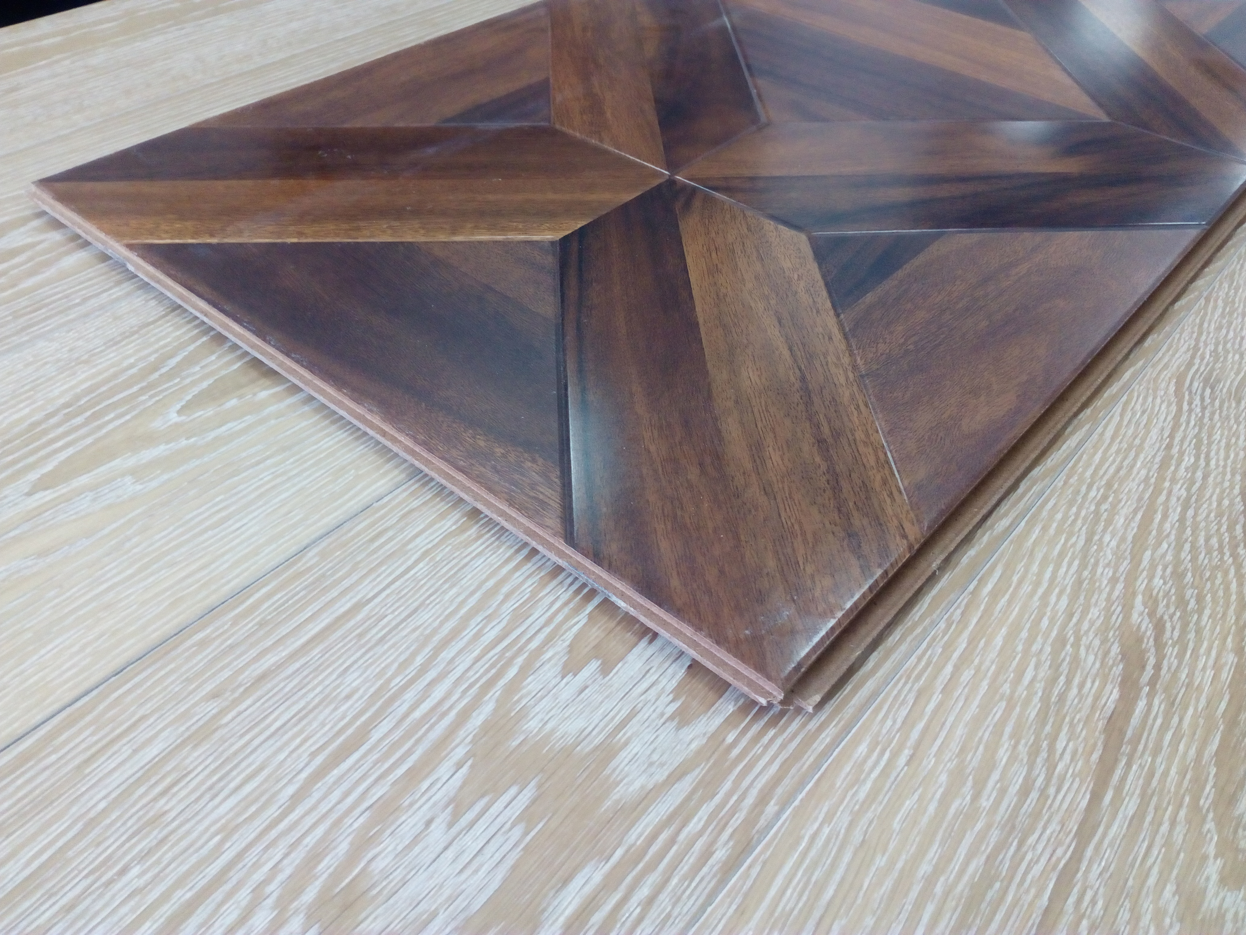 Соединительный профиль (замок) ламината с эффектом модульного паркета